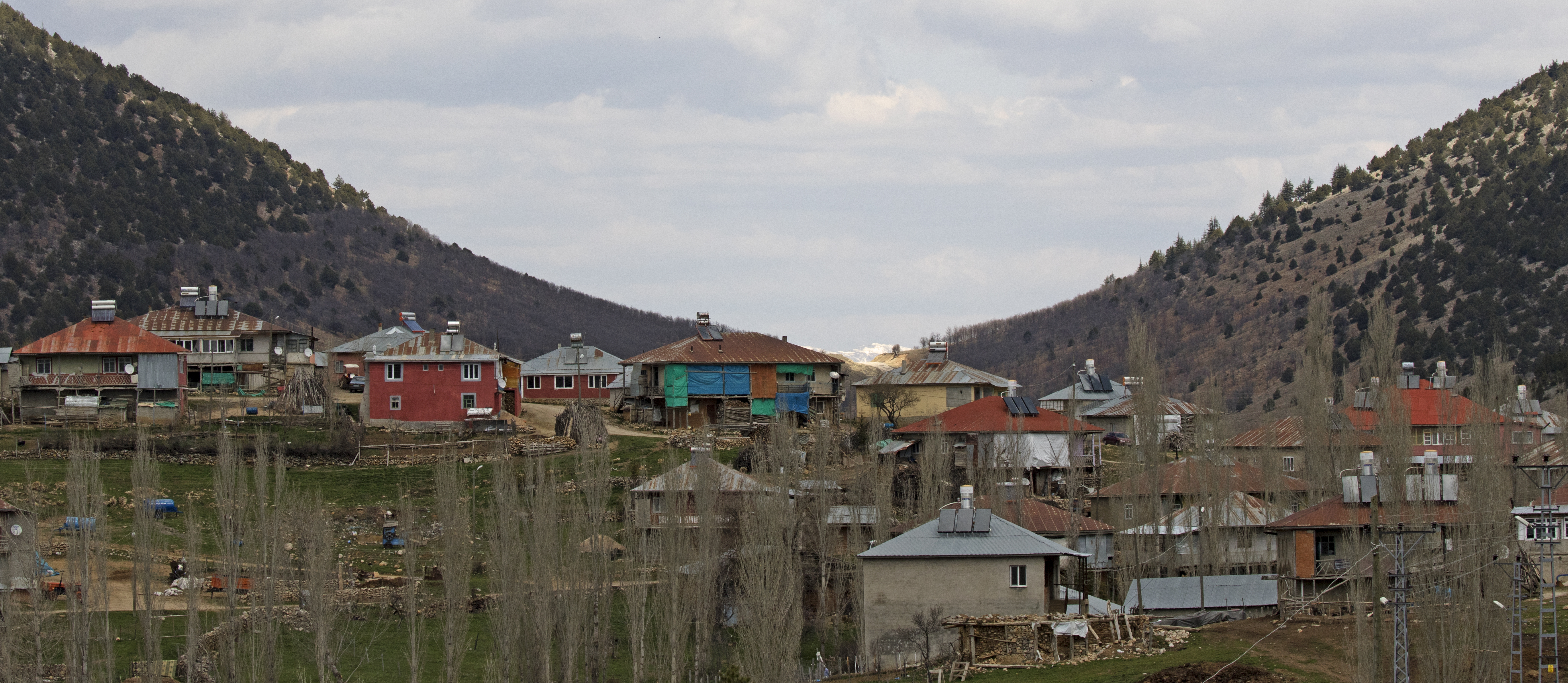 A western view of Beypınarı village of Saimbeyli district in Adana province, Turkey.